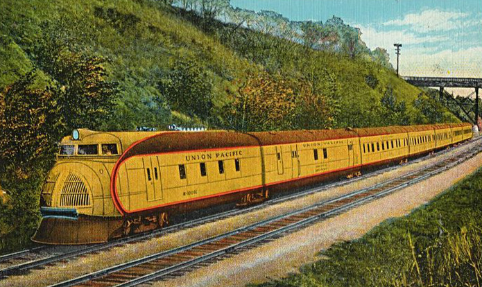 Postcard depiction of the Union Pacific streamliner City of Portland. The train was advertised as the first streamliner offering Pullman service.